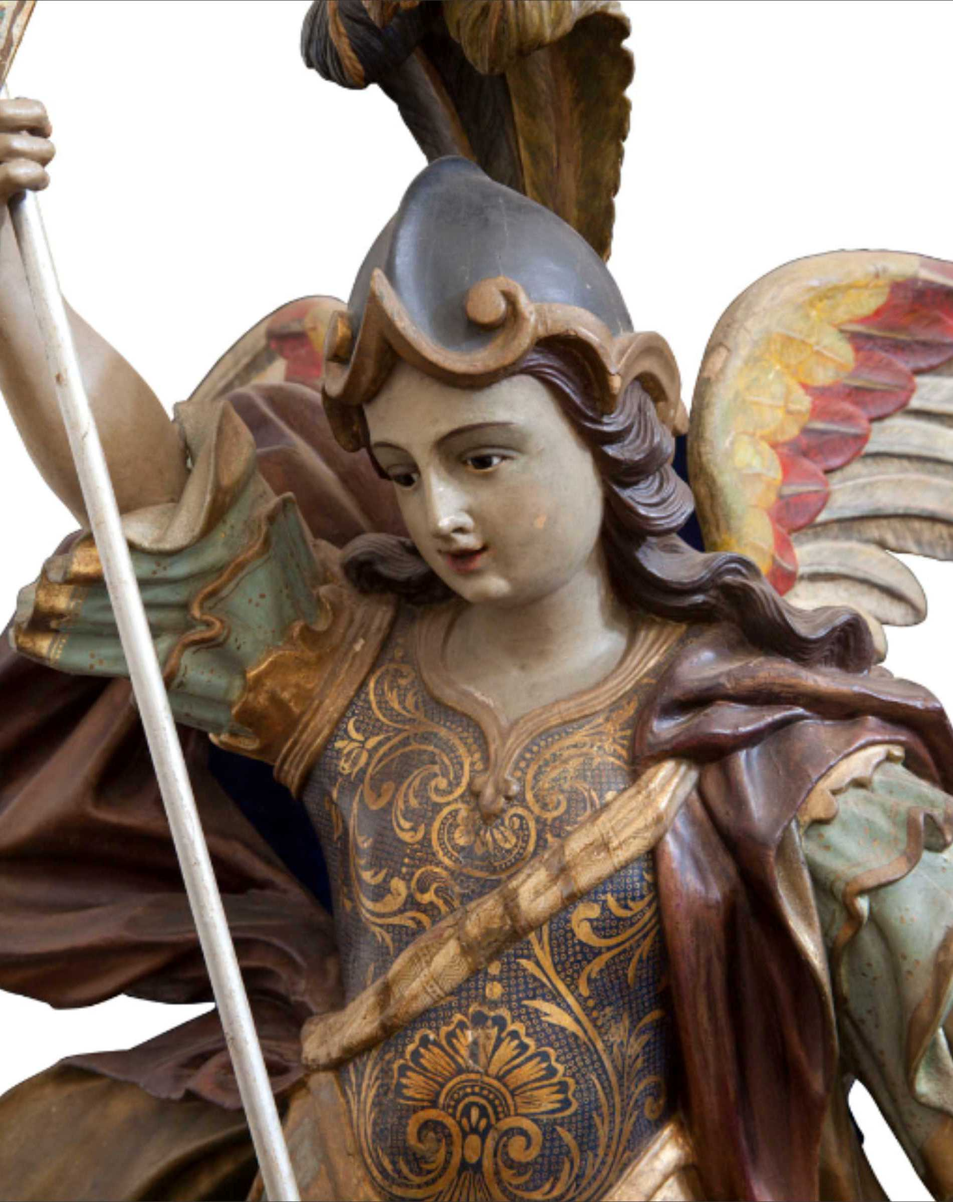 Sculpture São Miguel Arcanjo, by José Joaquim da Veiga Valle